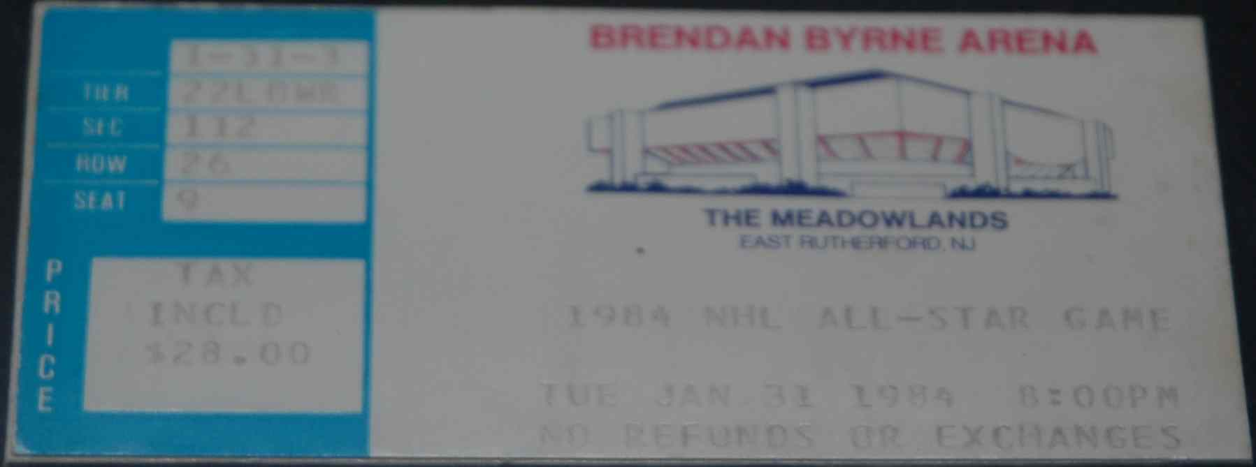 Ticket for the NHL All-Star Game 1984, shown in the Hall of Fame in Toronto